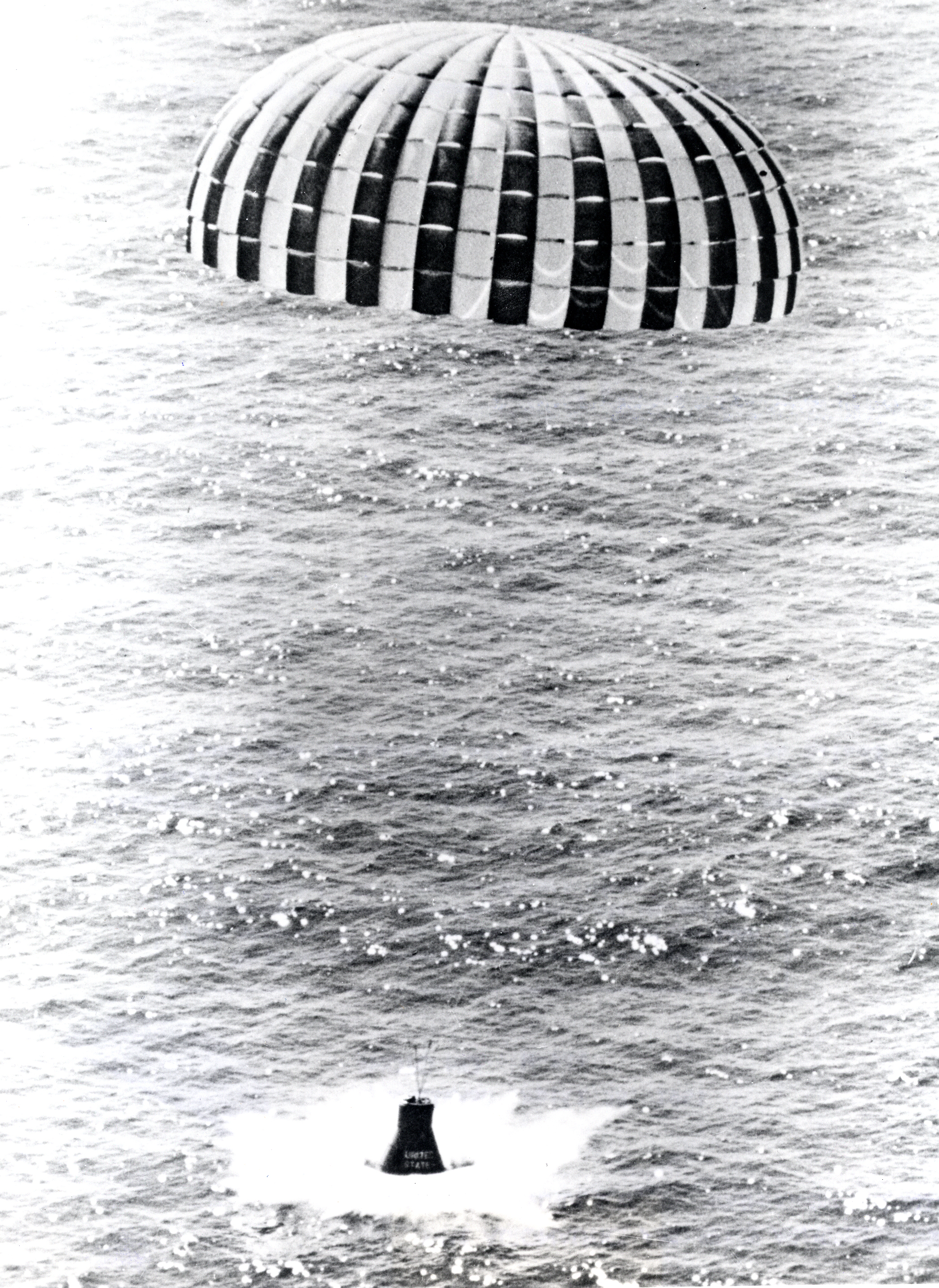 "Little Joe" 5B launched a Mercury spacecraft in a high-Q-abort test. The ring-sail parachute lands the spacecraft off the shore of Wallops Island, Virginia. The Little Joe rocket booster was developed as a cheaper, smaller, and more functional alternative to the Redstone rockets. Little Joe could be produced at one-fifth the cost of Redstone rockets and still have enough power to carry a capsule payload. Seven unmanned Little Joe rockets were launched at Wallops Island, Virginia, from August 1959 to April 1961.